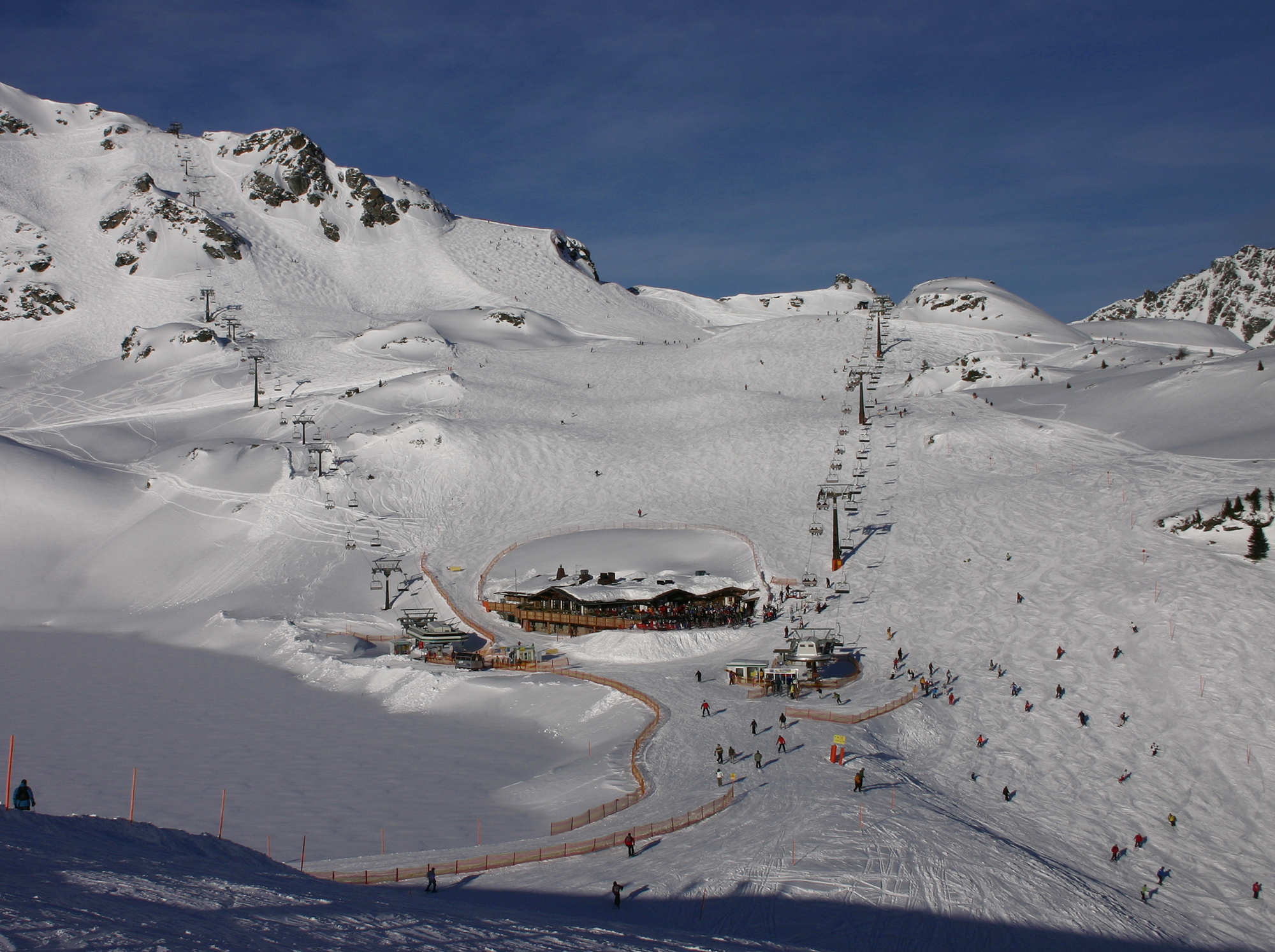 Pistes in Obertauern, Austria